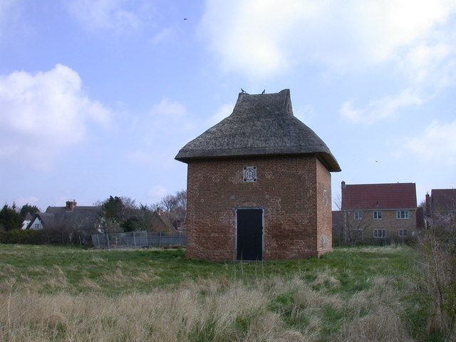 Dovecote at Foxton, Cambridgeshire, built for local farmer James Rayner in 1706. It, and the meadow in which it stands, are preserved as a Local Heritage initiative, supported by the Heritage Lottery Fund.